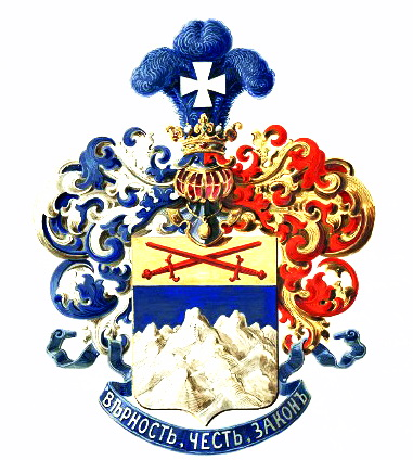 Coat of arms of the family Haritonov